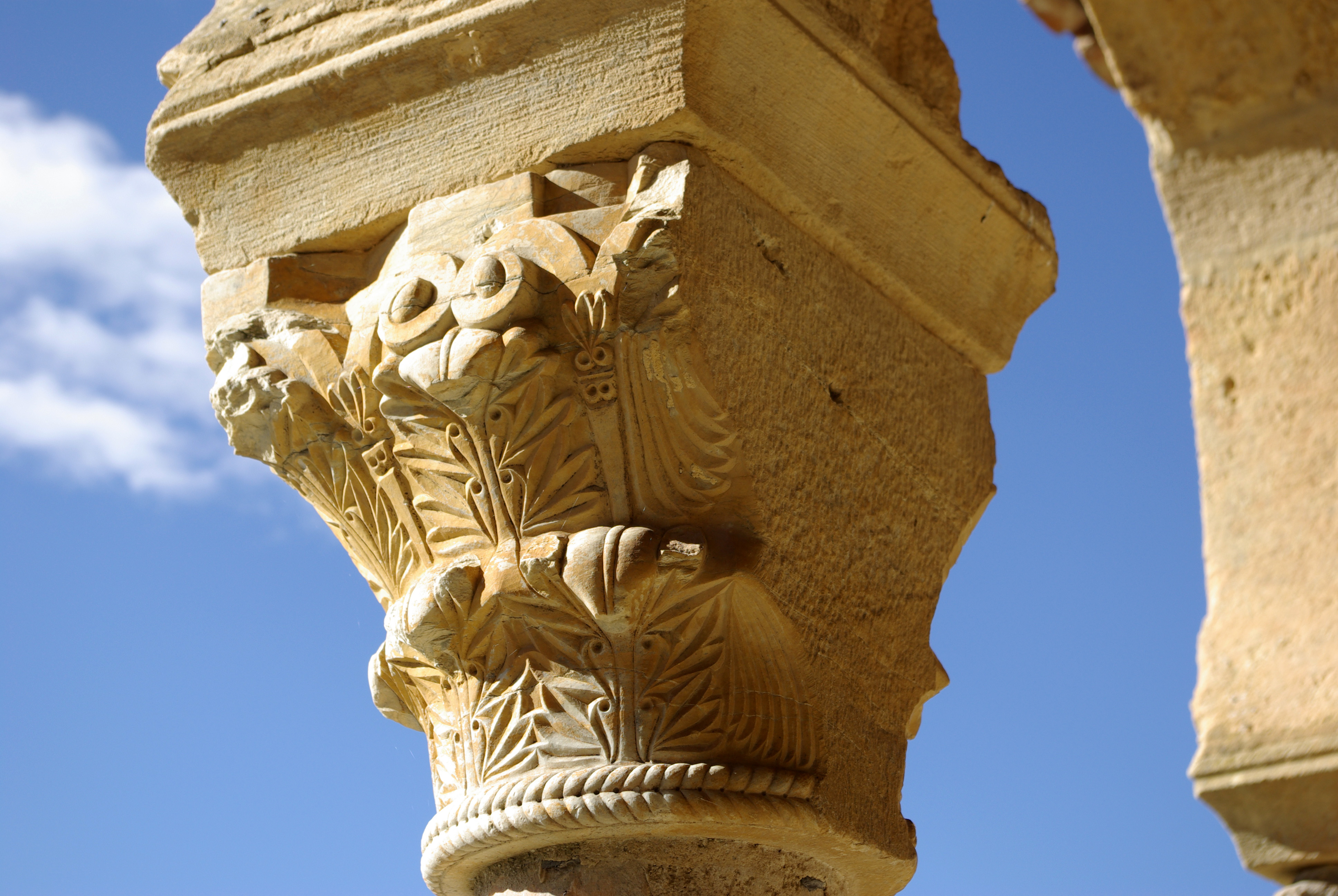 Monastery of San Miguel de Escalada, Gradefes (León, Spain).